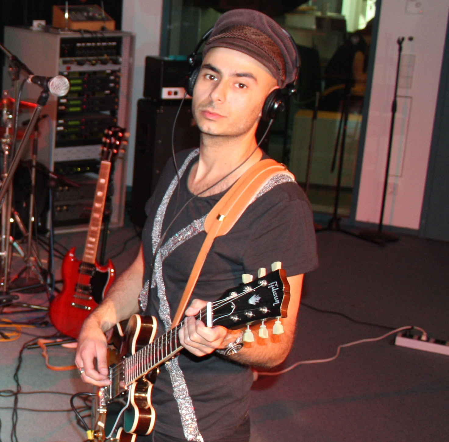 Malakoff Kowalski at the Radio Fritz Studios Potsdam (August 30, 2009)